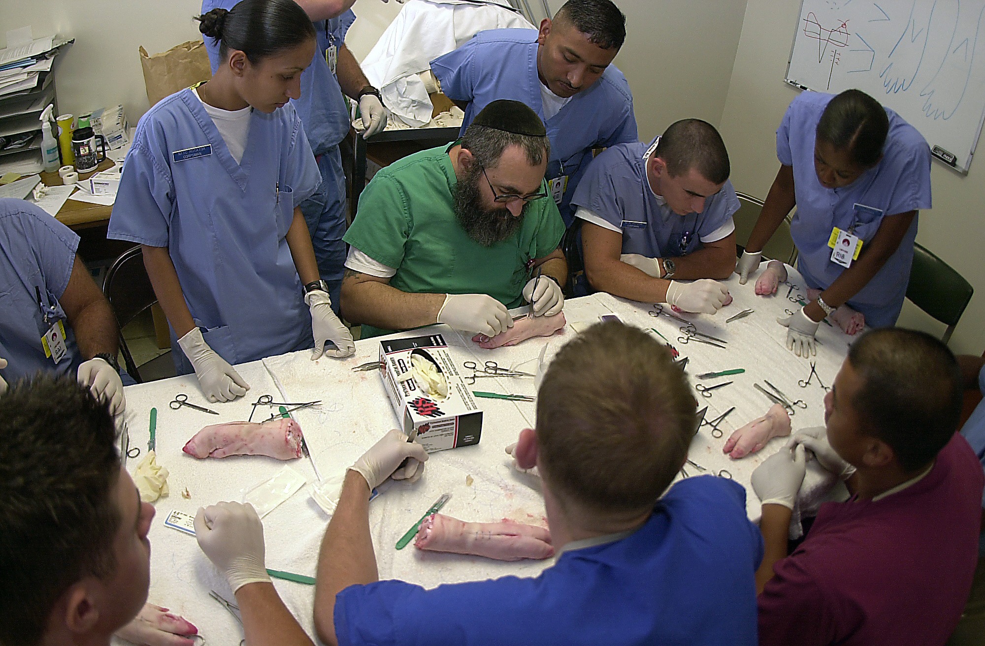 Los Angeles, Calif. (July 8, 2004) - Arnold Zigman (center in green scrubs) of New York, a Registered Nurse and Clinical administrator for the Los Angeles County, University of Southern California (USC) Medical Center shows Navy Hospital Corpsmen, and Medical Officers how to properly stitch an open wound at the Medical Center. The students are part of an outreach cooperative training program between Navy Medicine and the medical center. The Naval Trauma Training Center’s (NTTC) mission is to provide trauma experience and knowledge to Naval medical personnel before they deploy. The students from Naval Hospitals, clinics and commands at Naval Installations around the world, work in the emergency room, operating room and intensive care unit, to learn about the wide range of situations they may encounter when sent into the field. U.S. Navy photo by Photographer’s Mate 2nd Class Johansen Laurel (RELEASED)